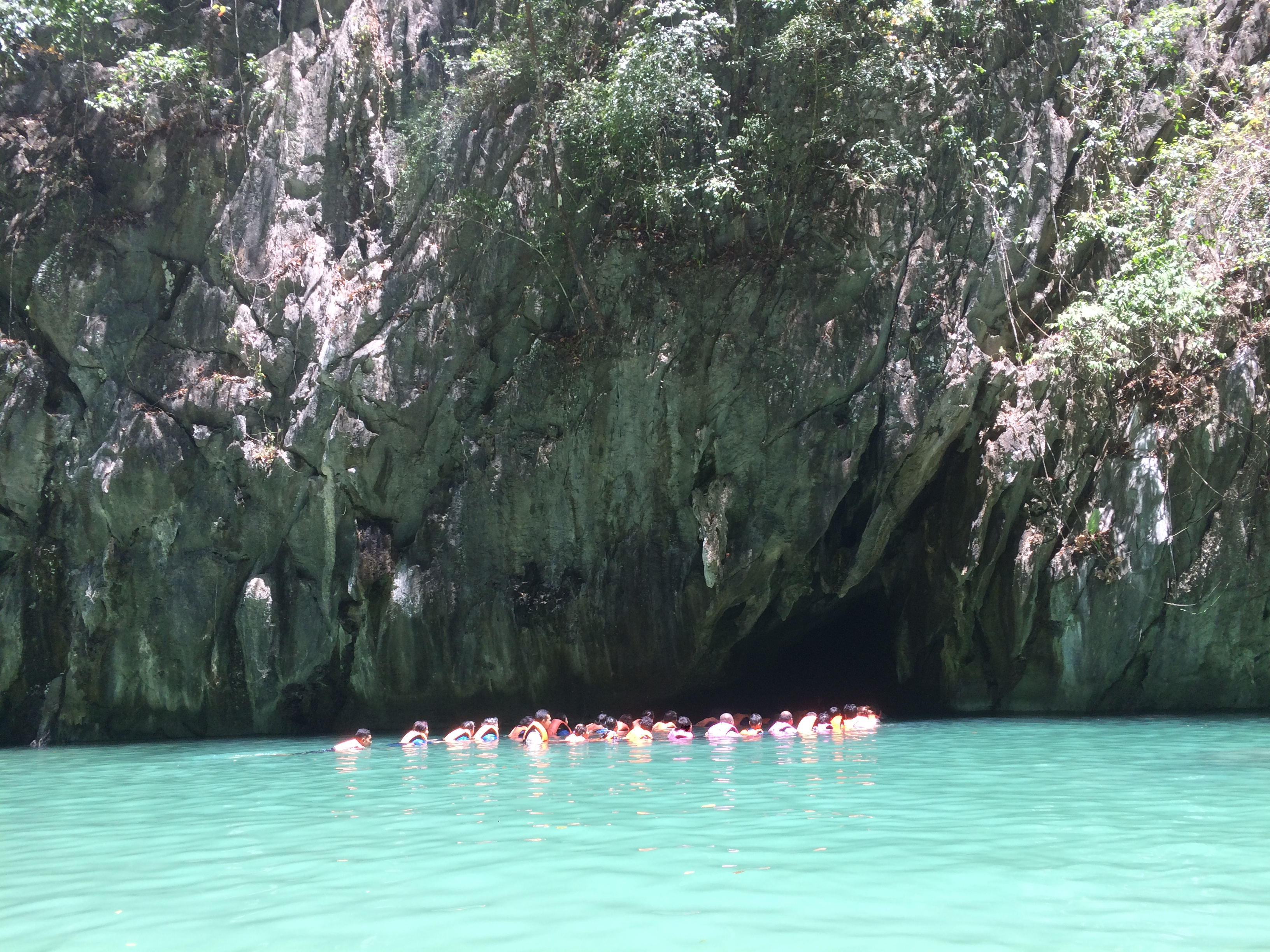 The way in and out of the cave.